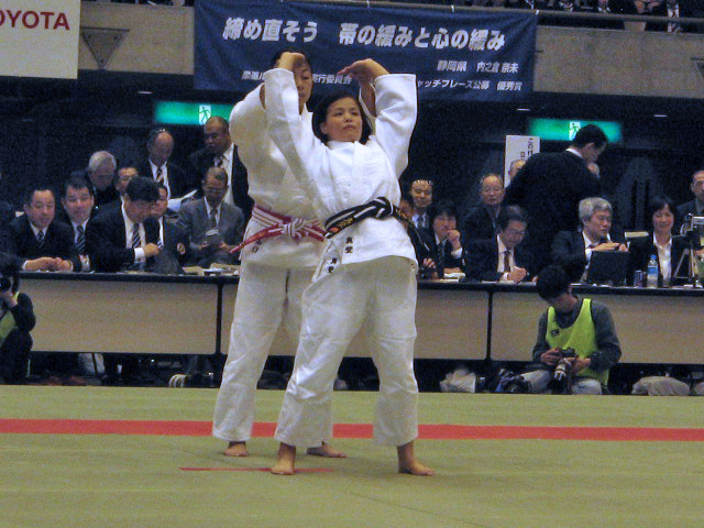 Kata form of KODOKAN judo